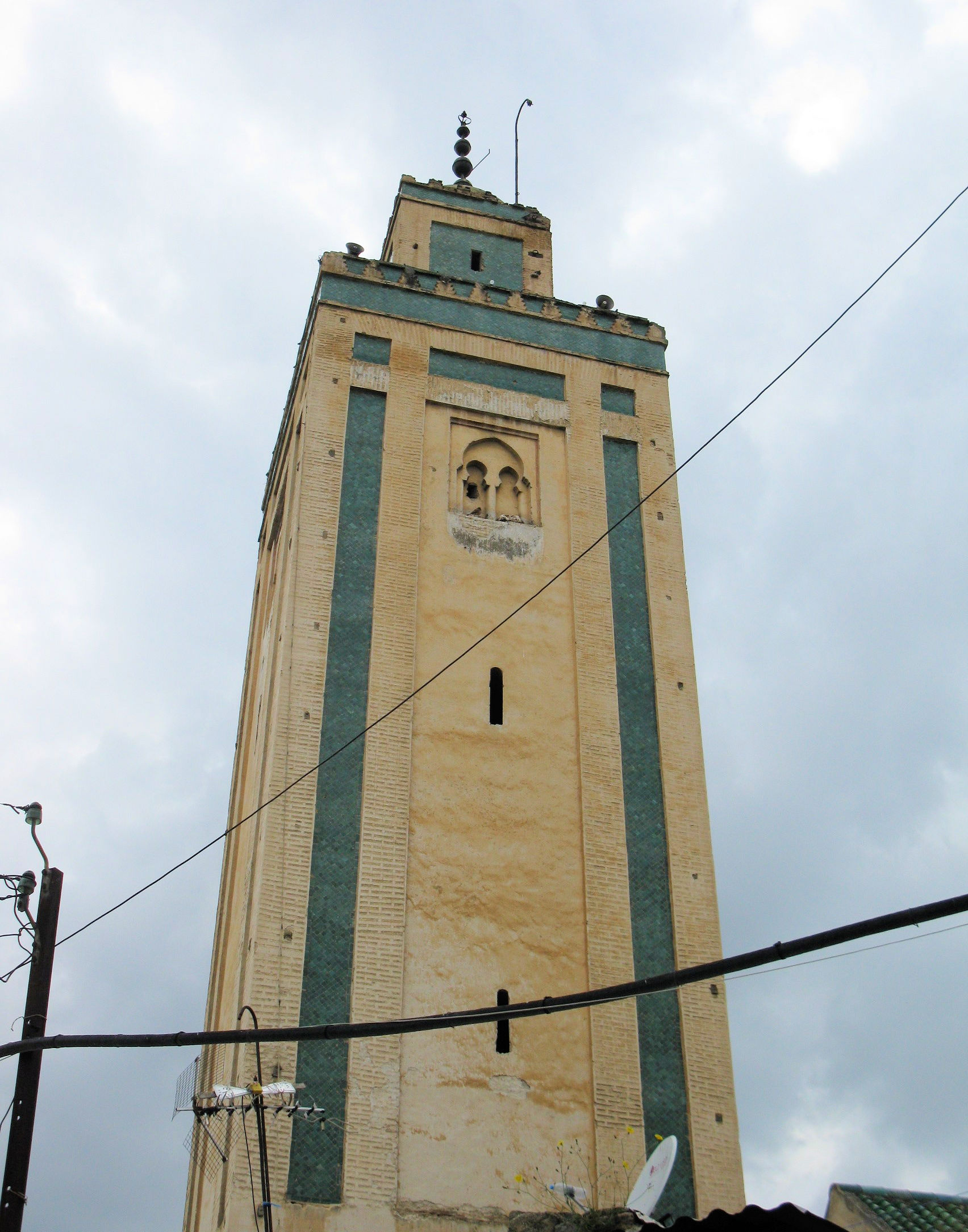 Minaret of the Moulay Abdallah Mosque, built in the Alaouite period, in Fes el-Jdid.